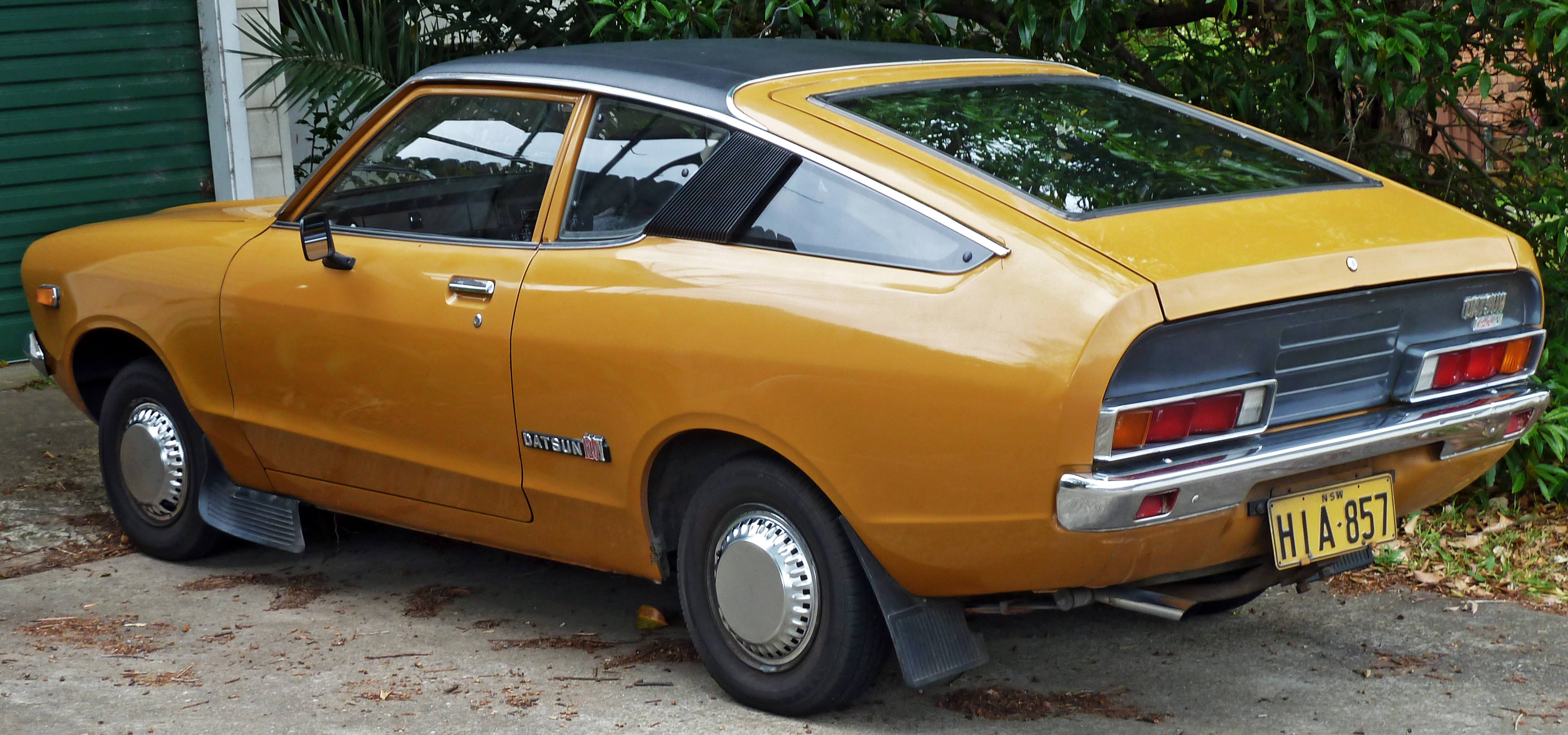 1974 Datsun 120Y (B210) coupe. Photographed in Gymea Bay, New South Wales, Australia.